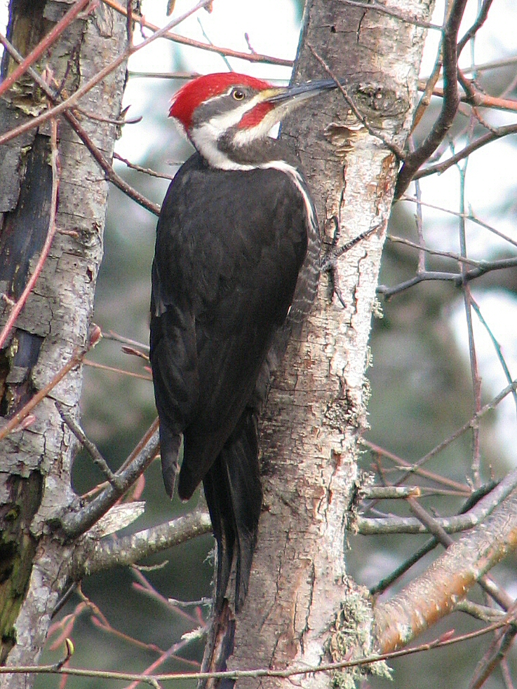 Original caption: A male pileated woodpecker sailed into my yard today at full speed and full voice, the first time I've seen one since I moved to Oregon. West Linn, Oregon, USAPileated Woodpecker in a Tree